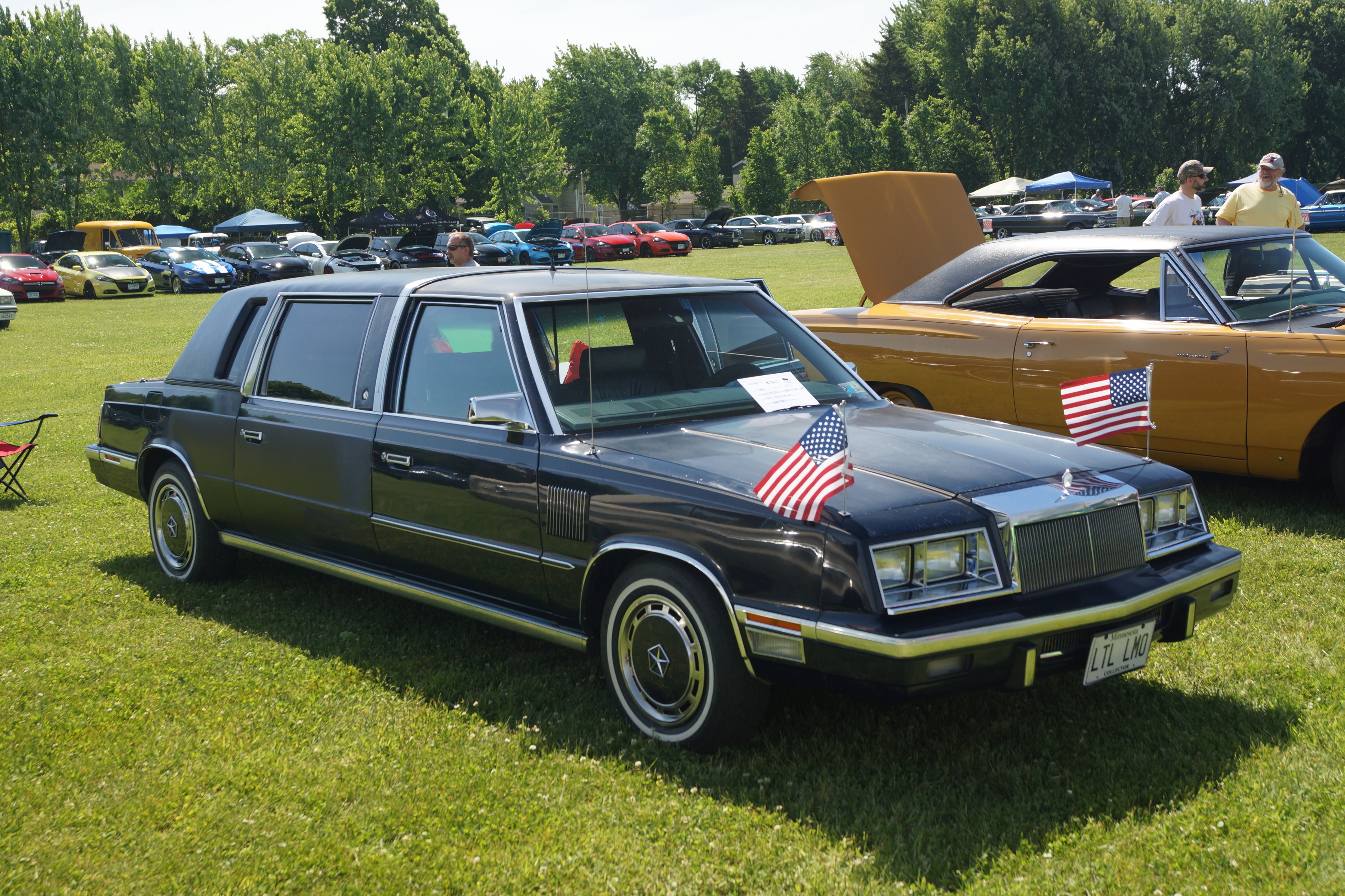 Midwest Mopars in the Park National Car Show & Swap Meet Dakota County Fairgrounds Farmington, Minntesota June 2-4, 2017